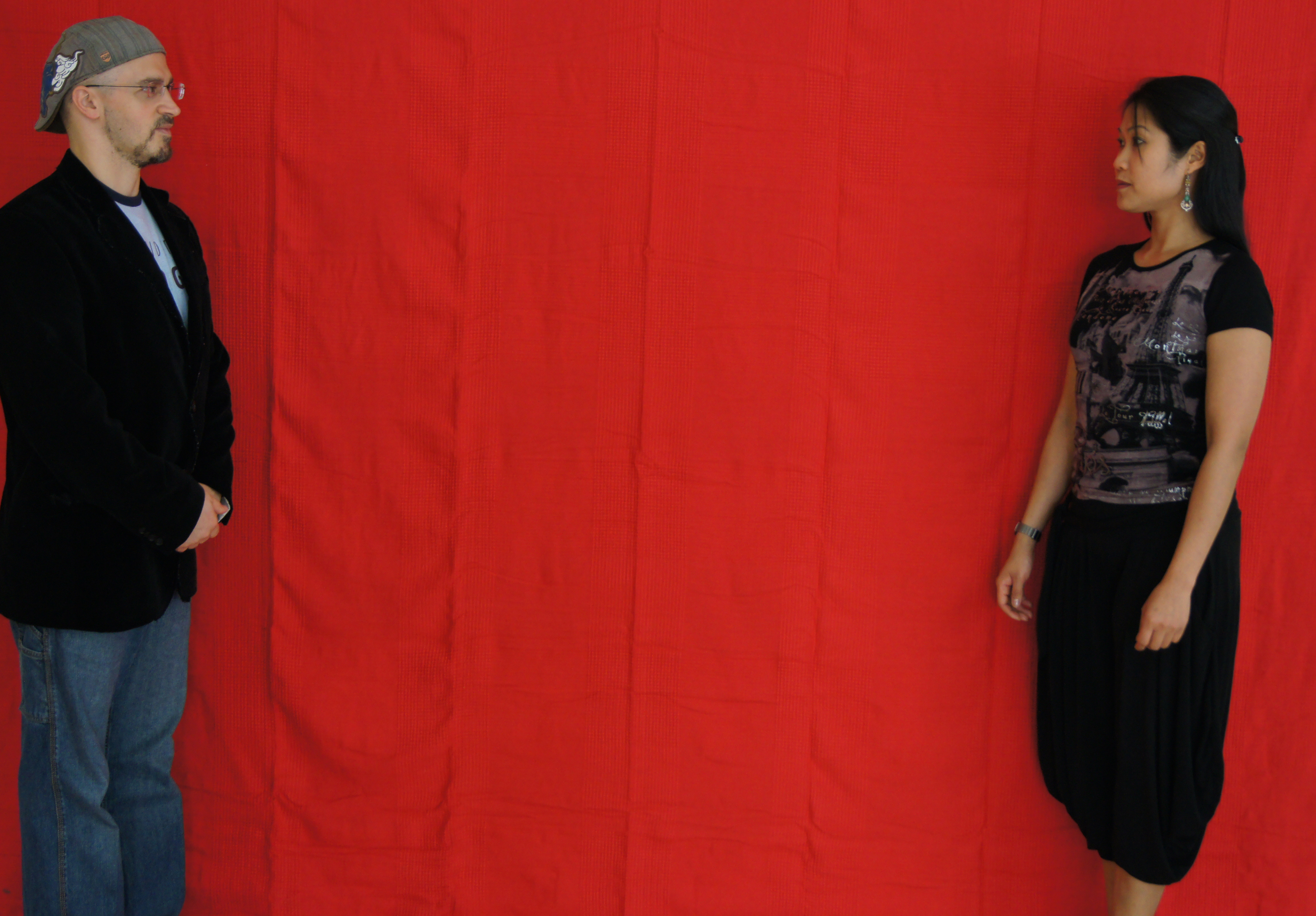 Cabaceo. Eye contact invitation, nodding. Tango teachers Homer and Christina Ladas are demonstrating argentine tango figures. Stanford, California, USA.